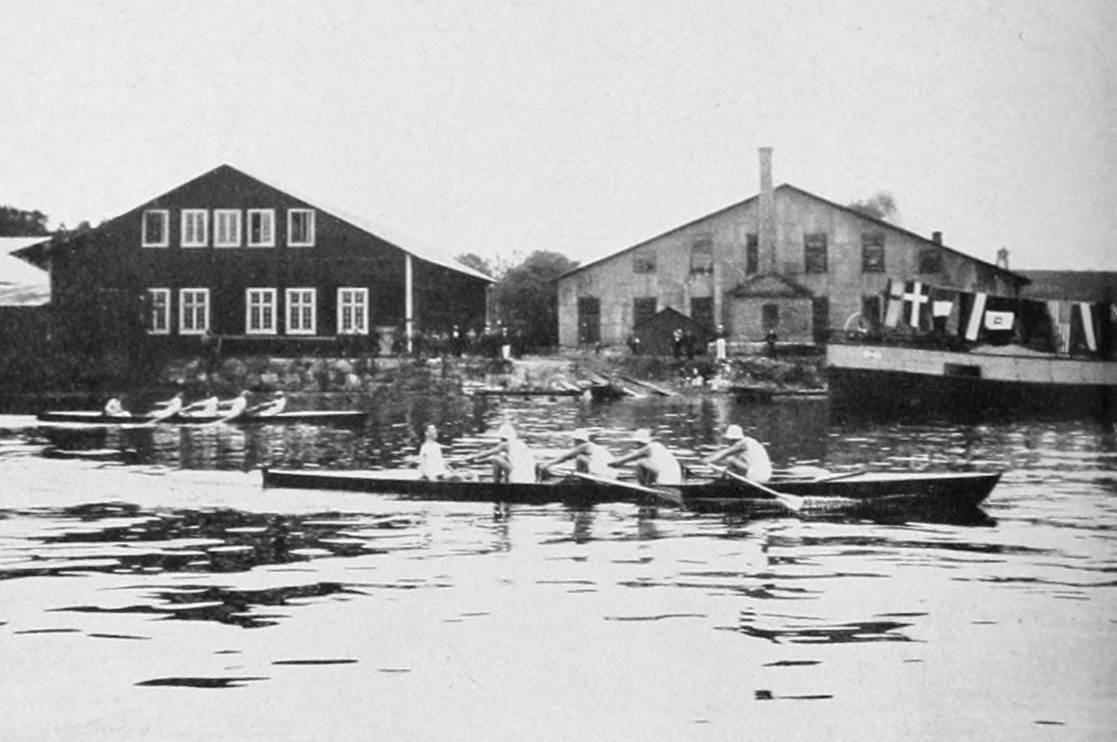 The Swedish Roddklubben af 1912 beating the Norwegian Ormsund in the coxed fours inriggers semi-finals of the 1912 Summer Olympics